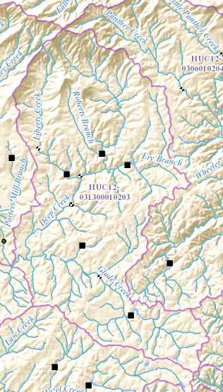 HUC 031300010203 - Deep Creek. Deep Creek rising in the north of the sub-watershed, and joining the Soque River in the southwestern-most corner of the area. Glade Creek joins from the southeast.